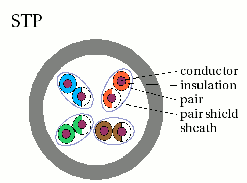 Deelkar License: GNU FDL